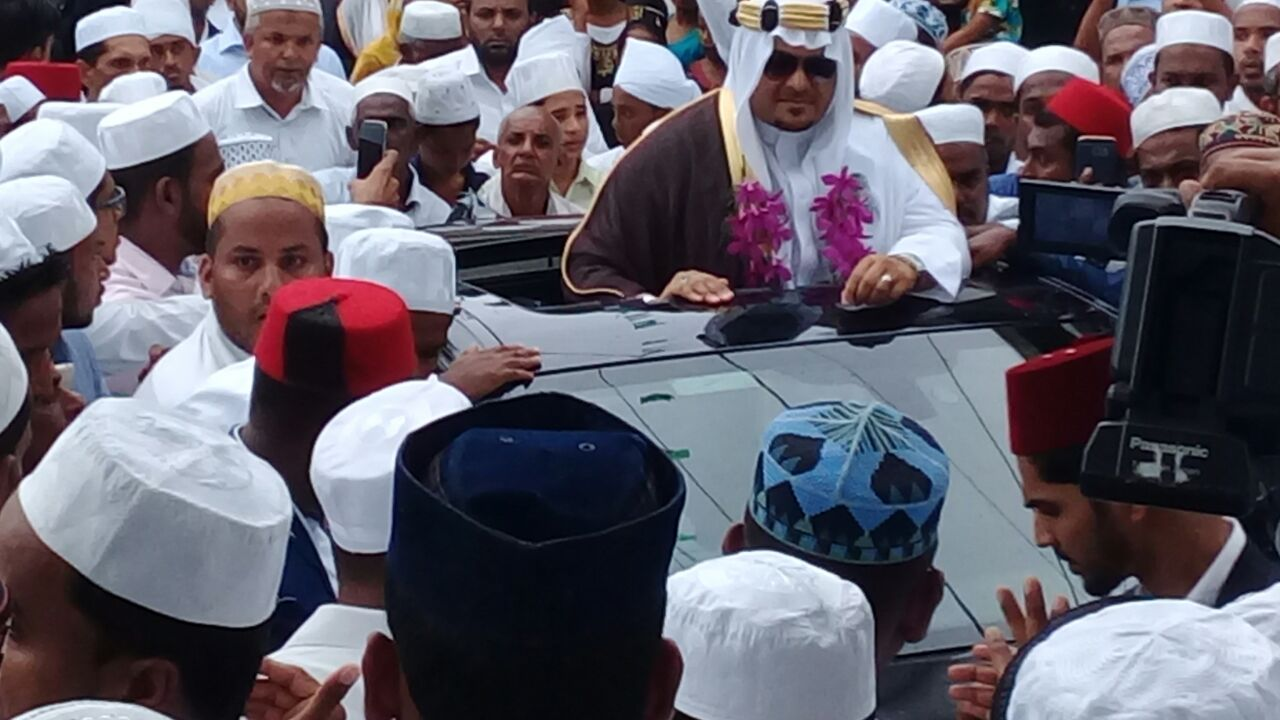 Grand welcome at China fort, Beruwala